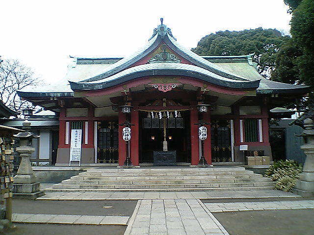 Shinagawa Shrine in Shinagawa, Tokyo